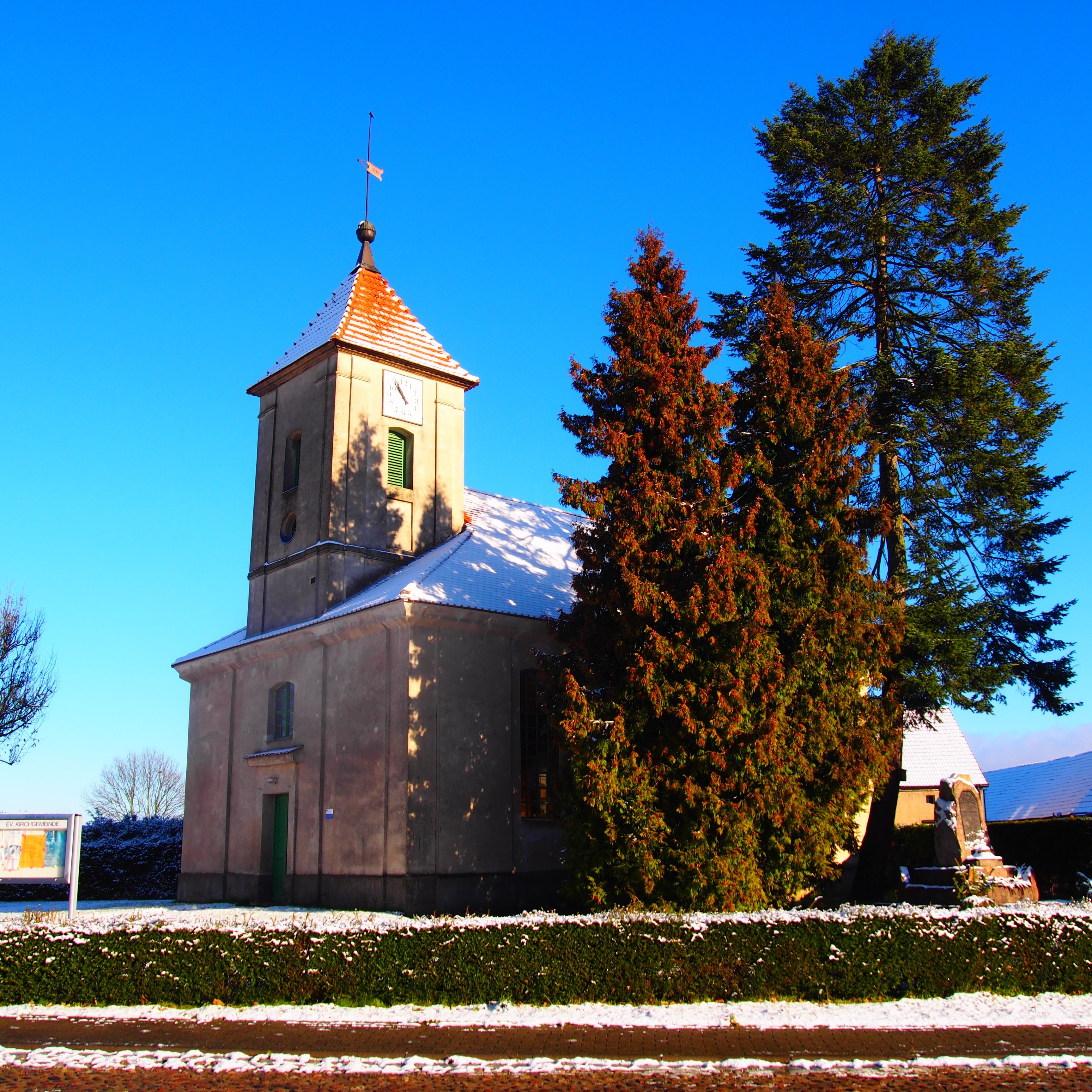 Church in Sewekow, Wittstock municipality, Ostprignitz-Ruppin district, Brandenburg state, Germany